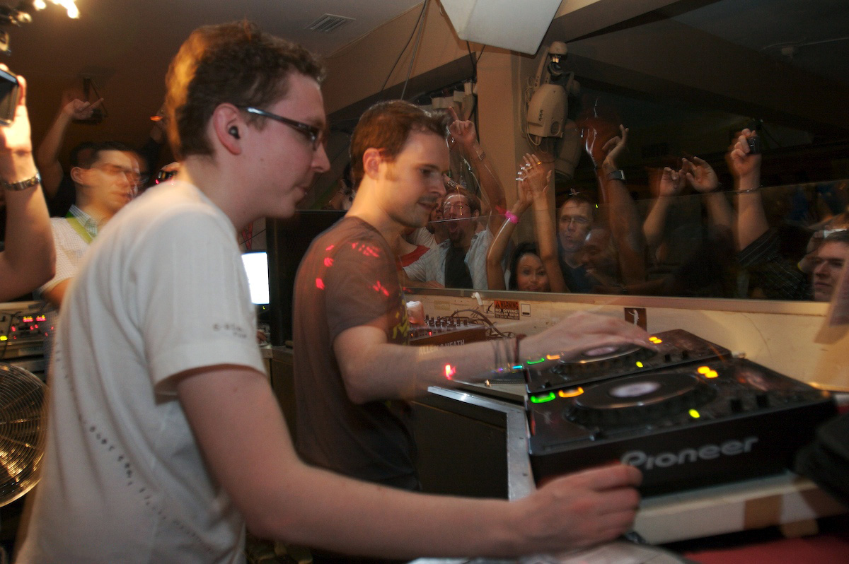 Paavo Siljamäki and Jono Grant of Above & Beyond performing in Miami.